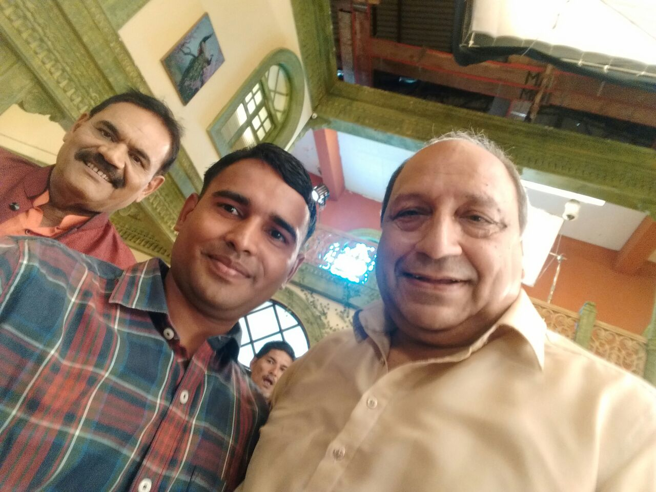 Javed